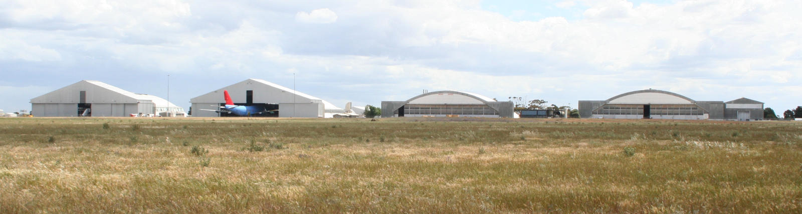 Hangars at Avalon Airport - Victoria, Australia